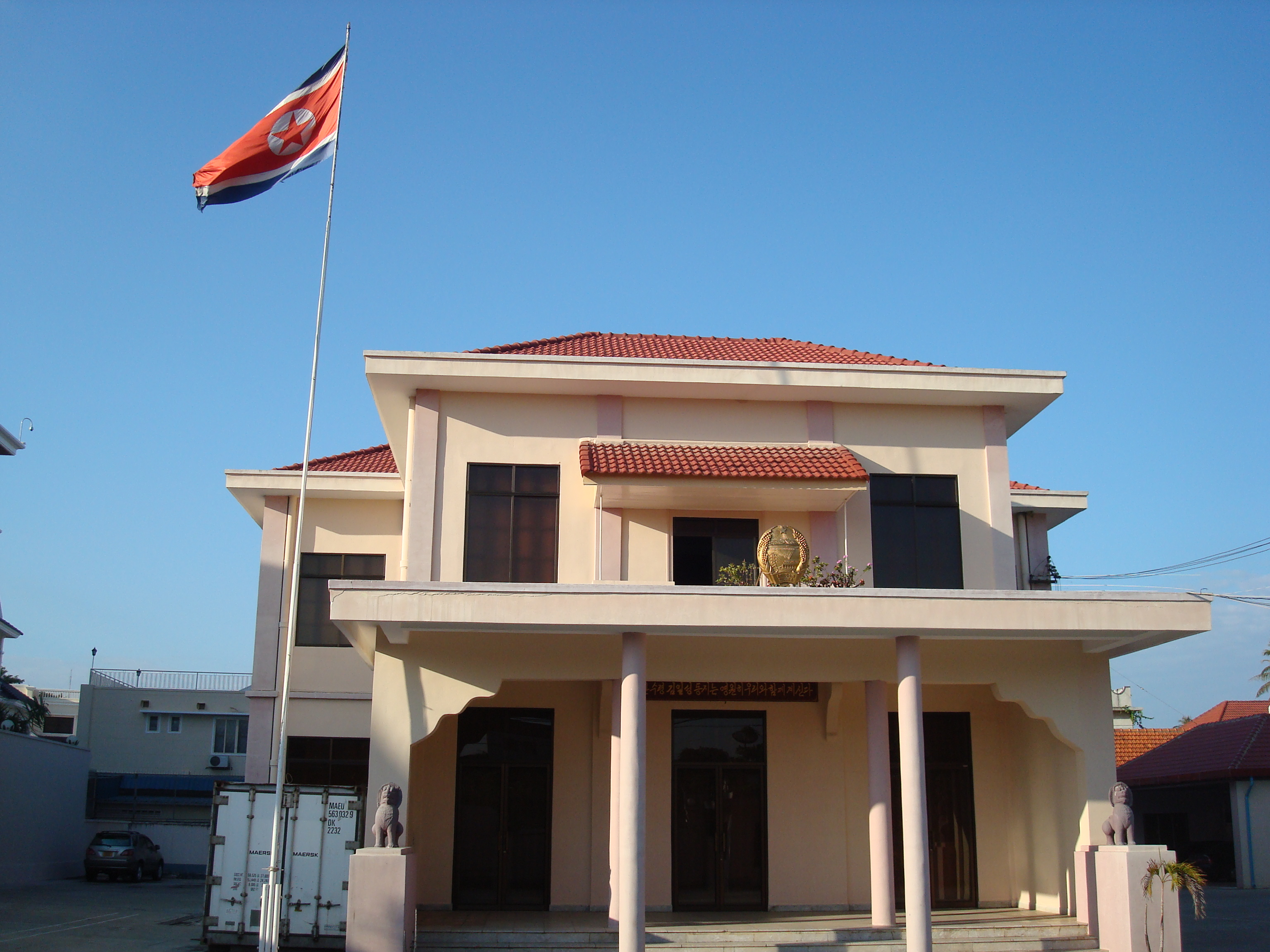 Embassy of the Democratic People's Republic of Korea in Phnom Penh, Kingdom of Cambodia.